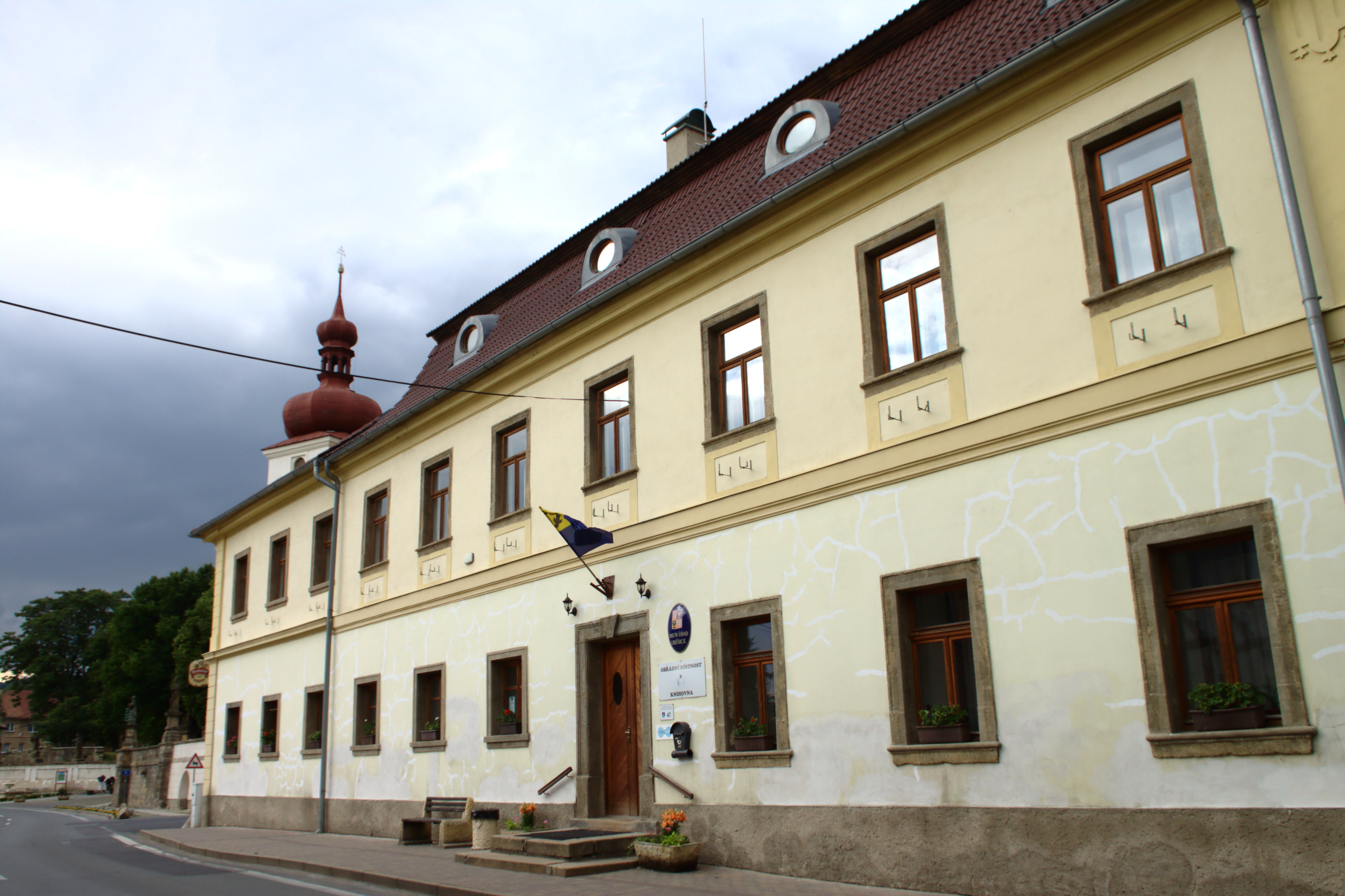 Liběšice town hall, Ústí Region, CZ